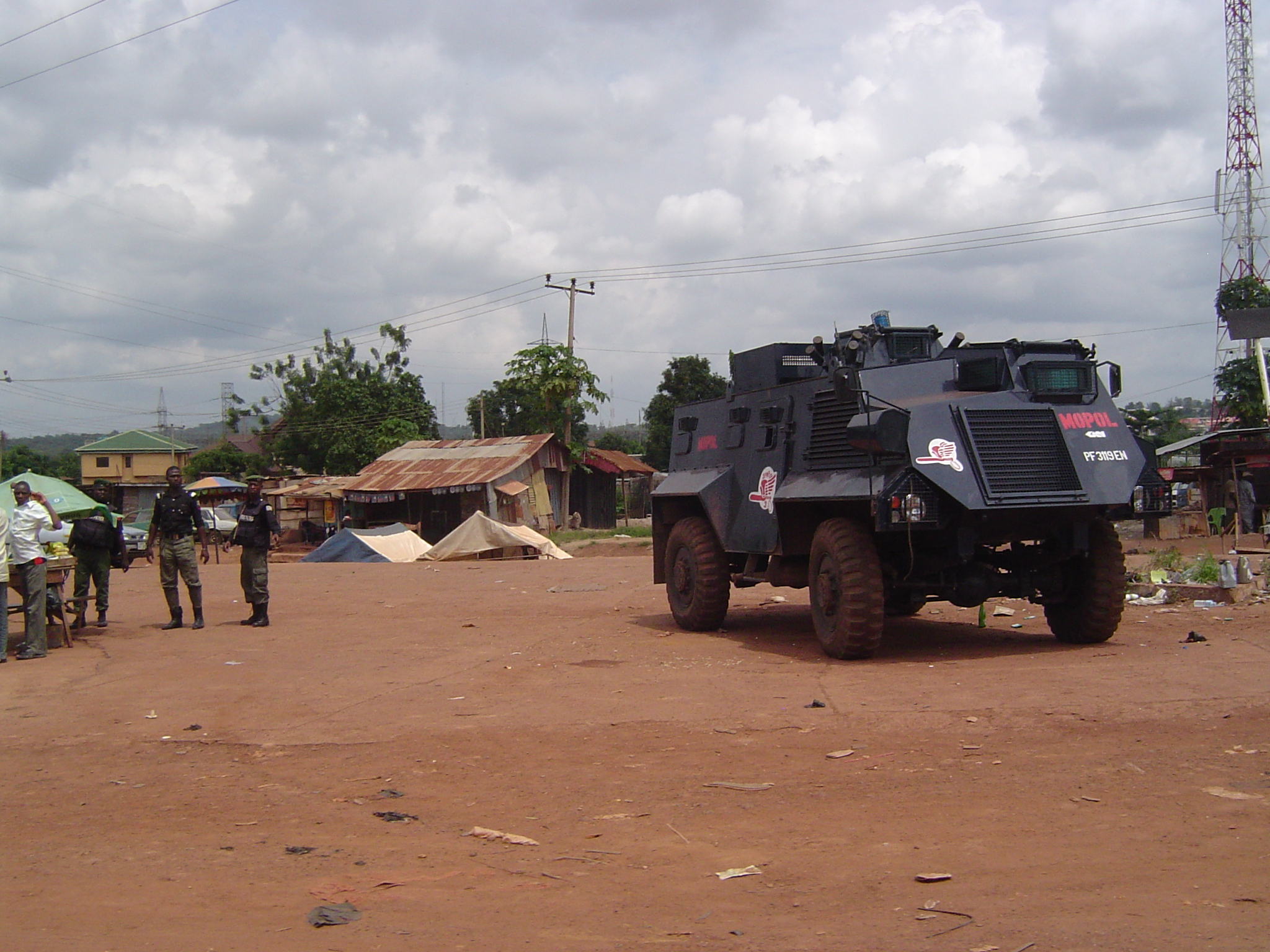 Nigerian Mobile Police with Vehicle